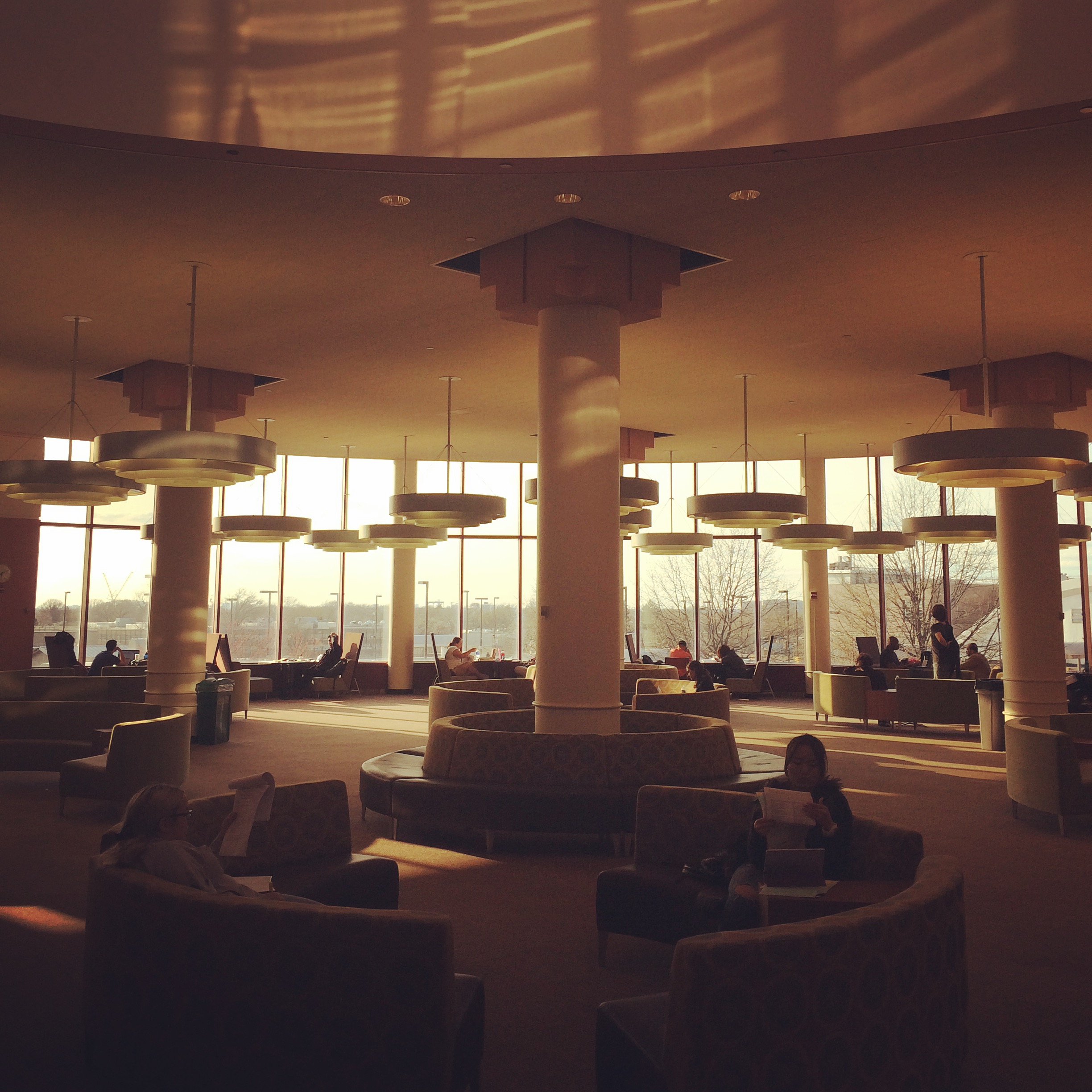 Interior shot of the Rosenthal Library, Queens College of the City University of New York